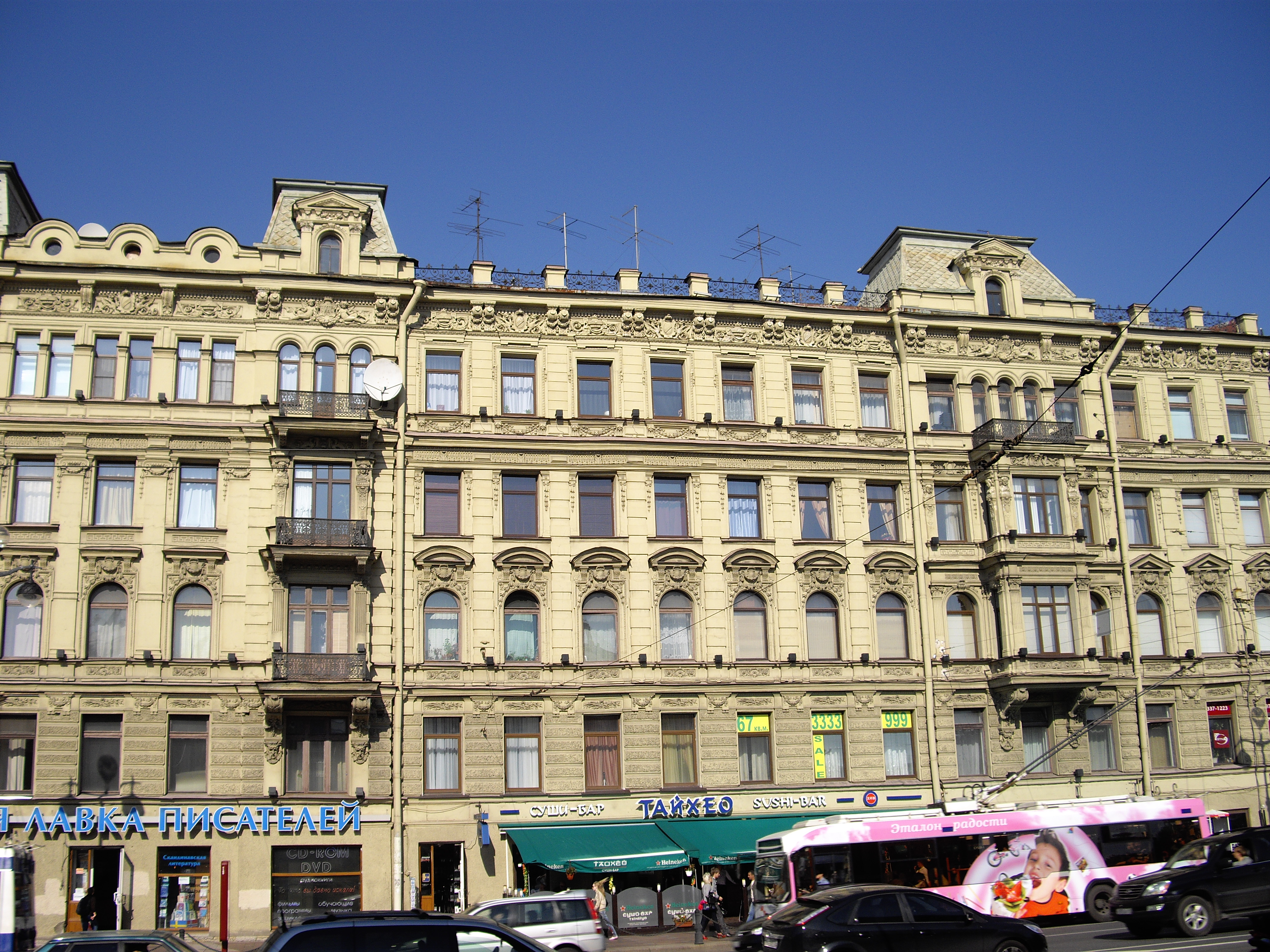 66, Nevsky Prospekt. Architect Alexander Ivanov, 1877-1878.